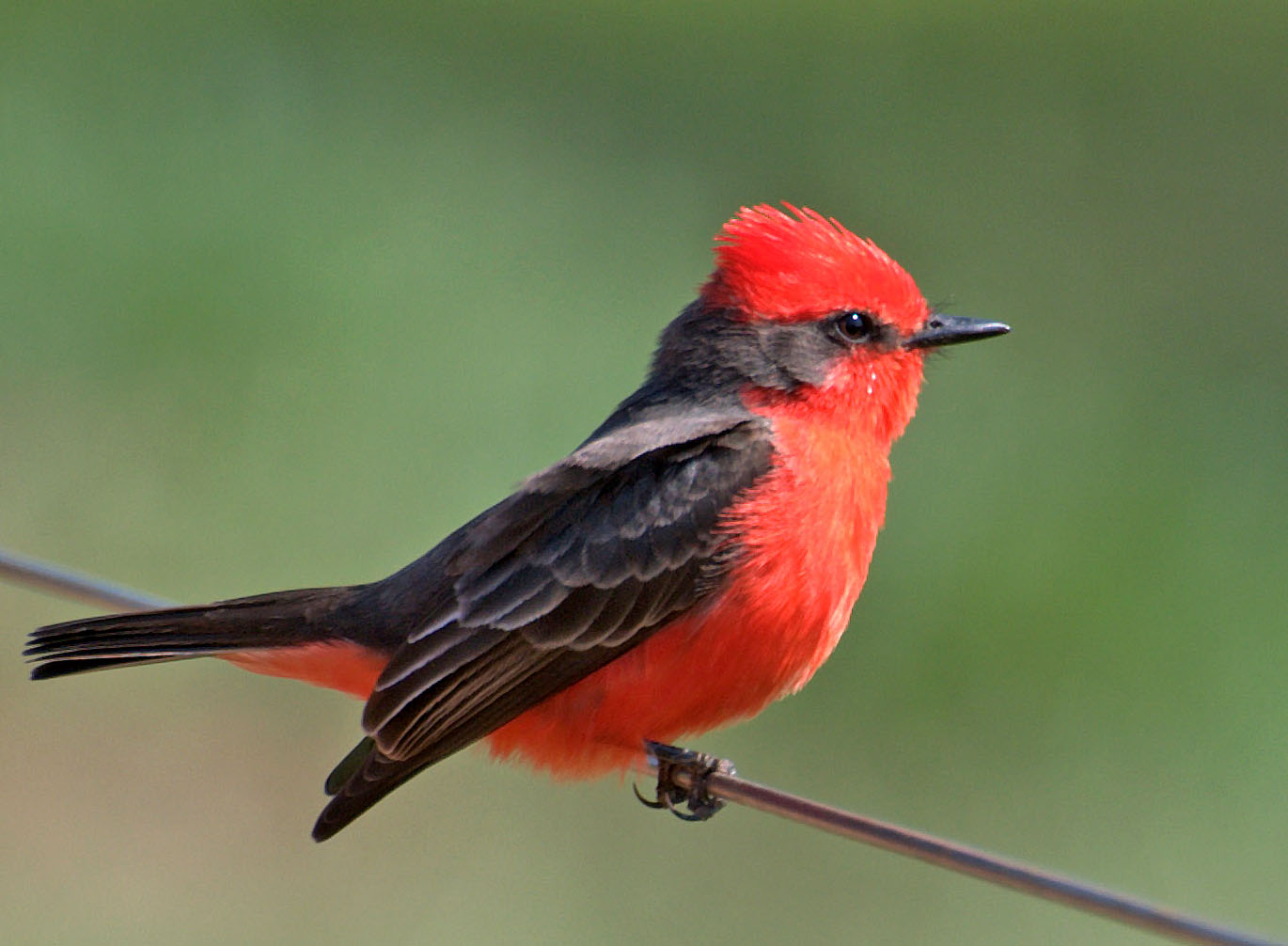 A male Vermilion Flycatcher in Piraju, São Paulo, Brazil.